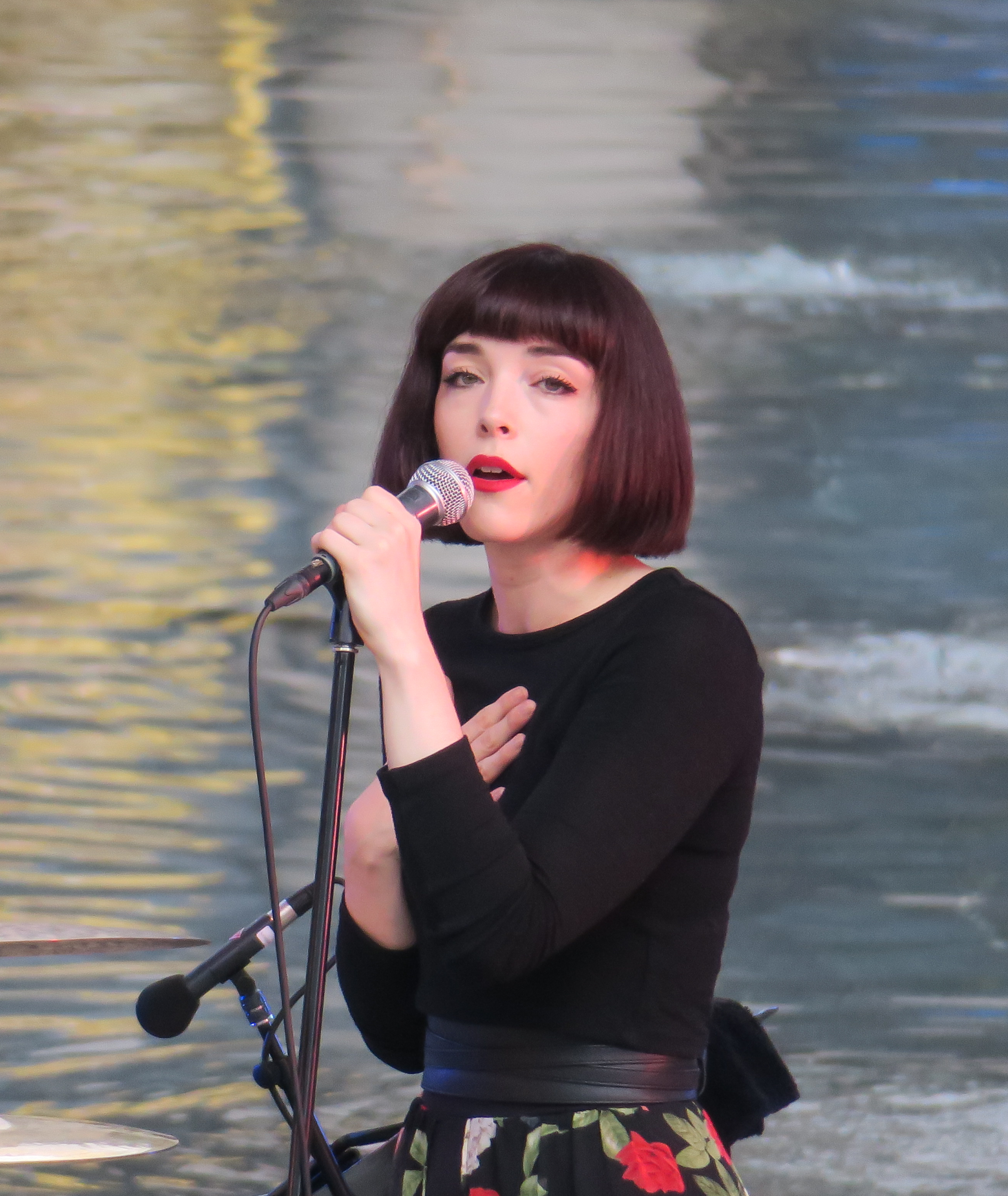 Performing on the patio in front of Roy Thomson Hall on Friday night.